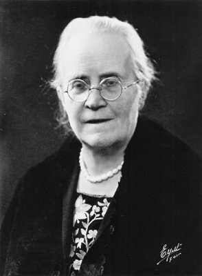 Henriette Forchhammer, aka Henni Forchhammer (1863-1955), Danish women's rights activist